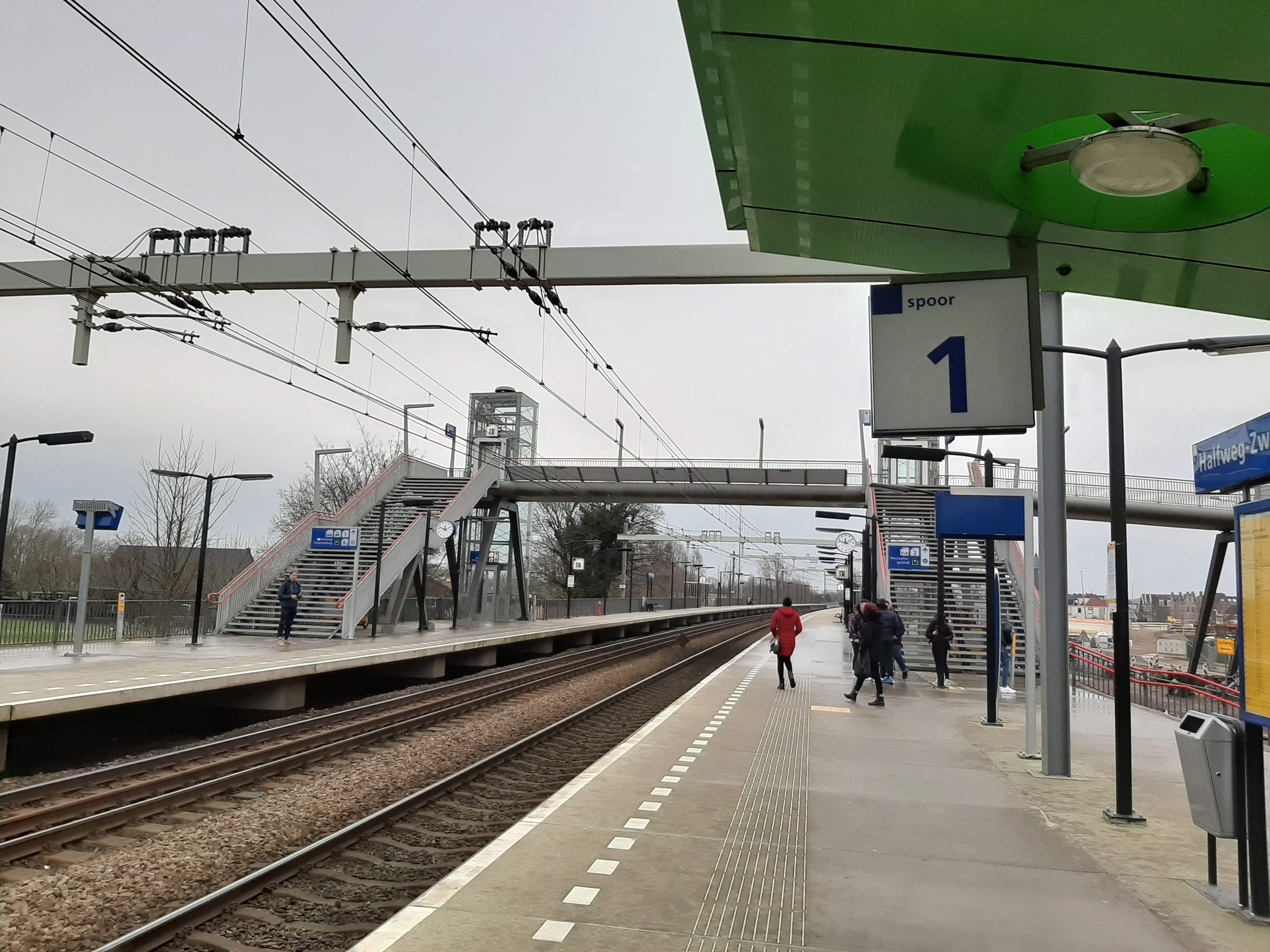 Train station in Halfweg, Netherlands